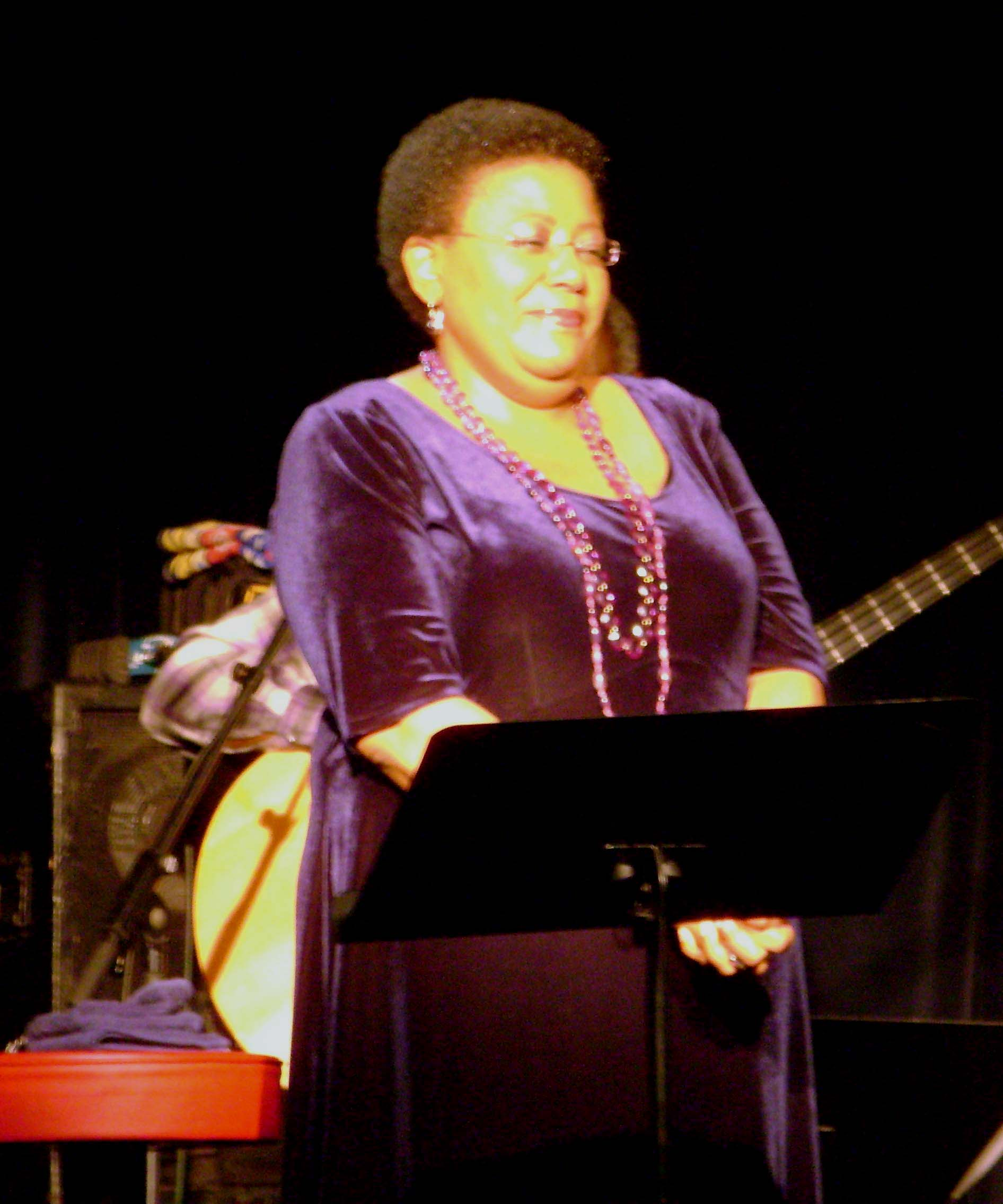 Sibongile Khumalo, Treibhaus, Innsbruck, 2008